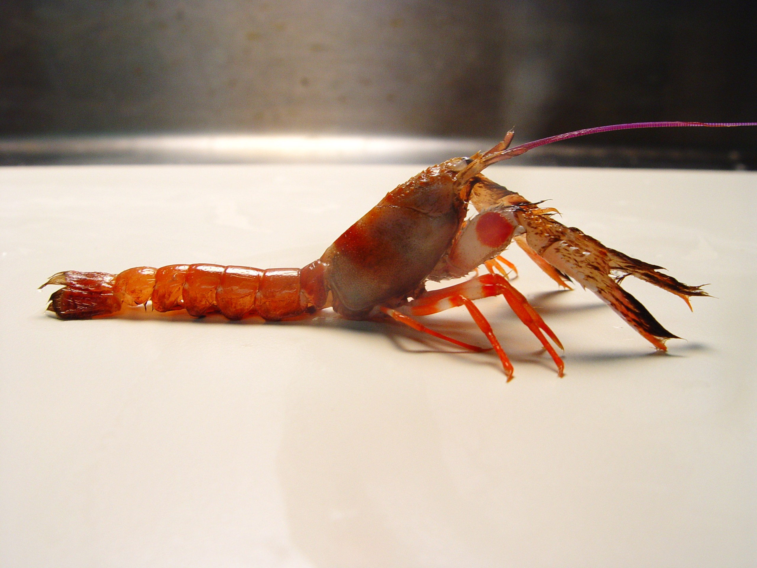 Acanthaxius hirsutimanus from the Gulf of Mexico